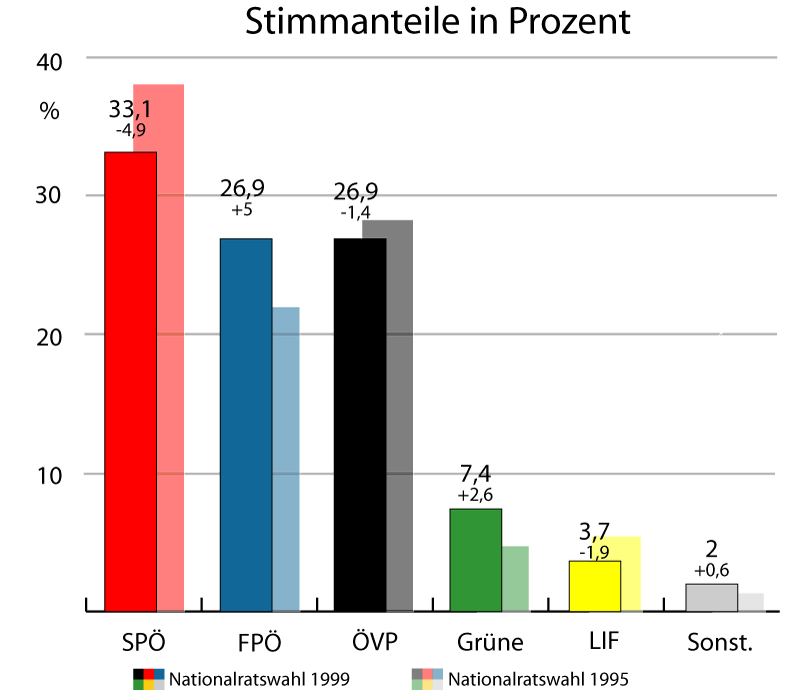 Results of the Austrian legislative Election 1999 in percentages compared with the election 1995